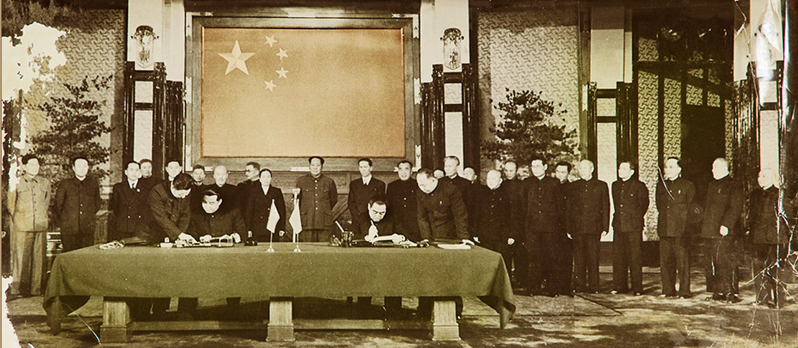 Signing Sino-North Korean Mutual Aid and Cooperation Friendship Treaty, 11 July 1961.